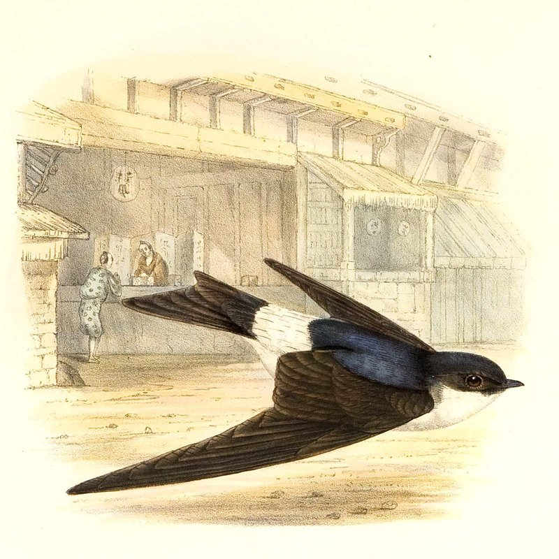 « Chelidon dasypus » = Delichon dasypus (Asian House Martin)